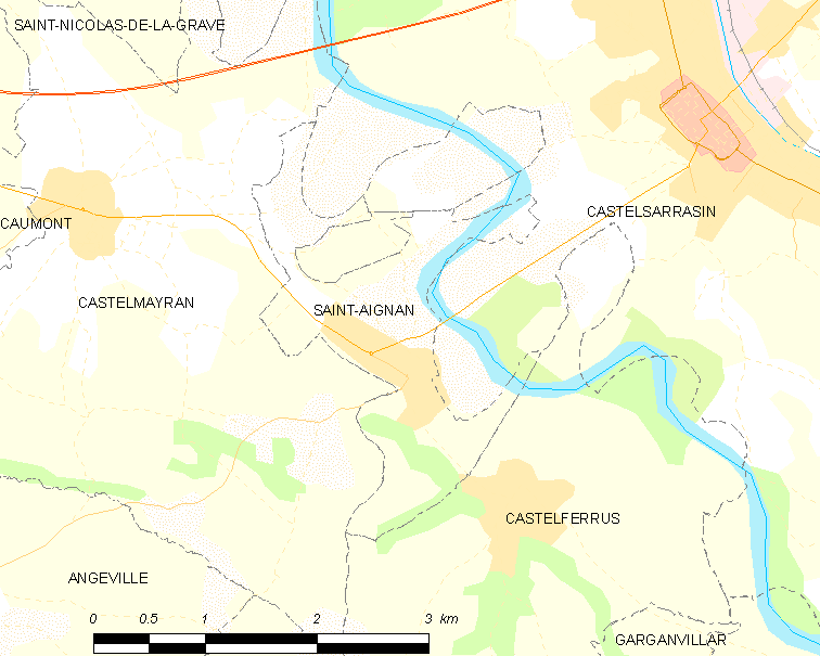 Map of French municipality Saint-Aignan